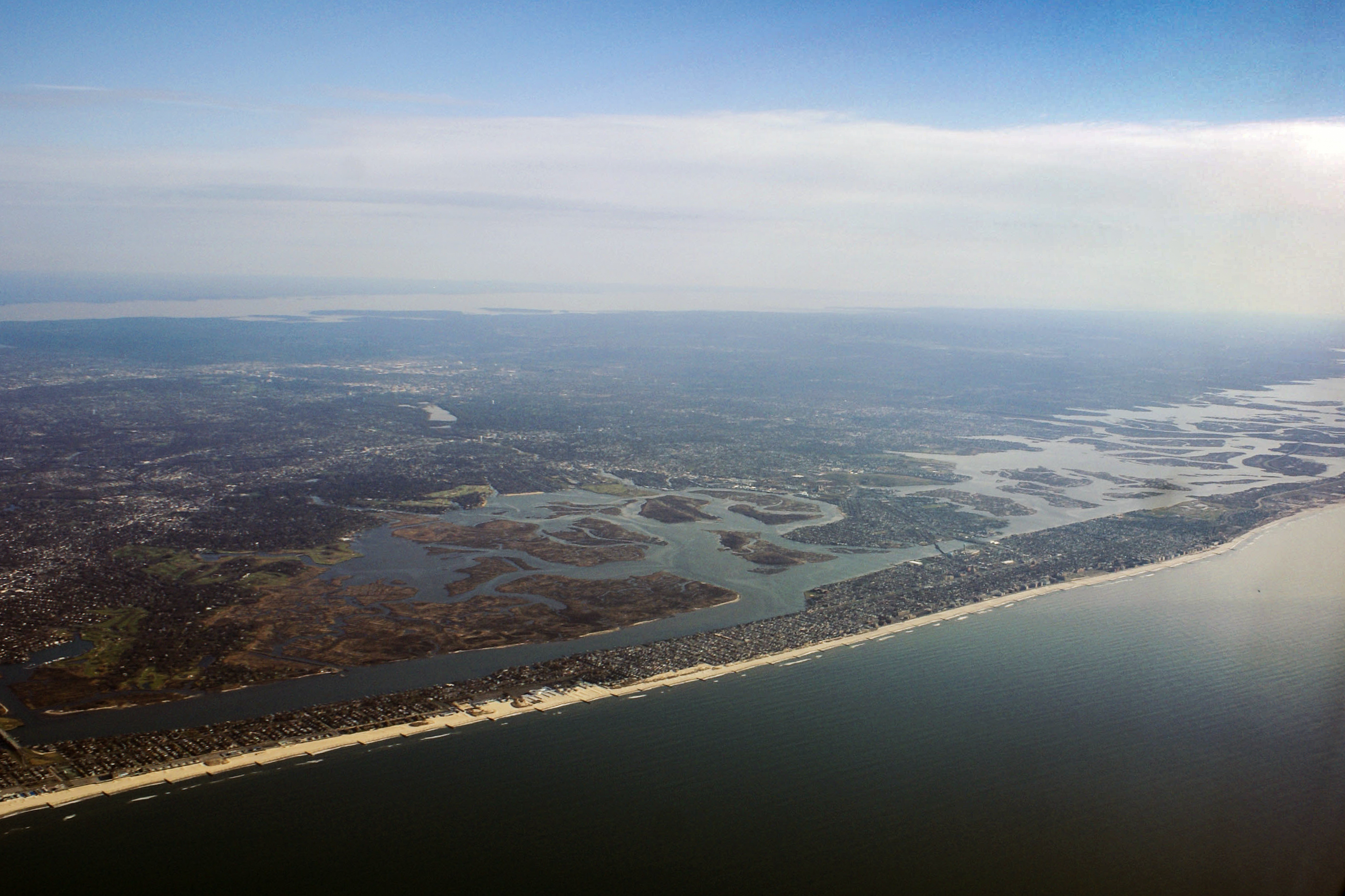 Long Beach Barrier Island aerial